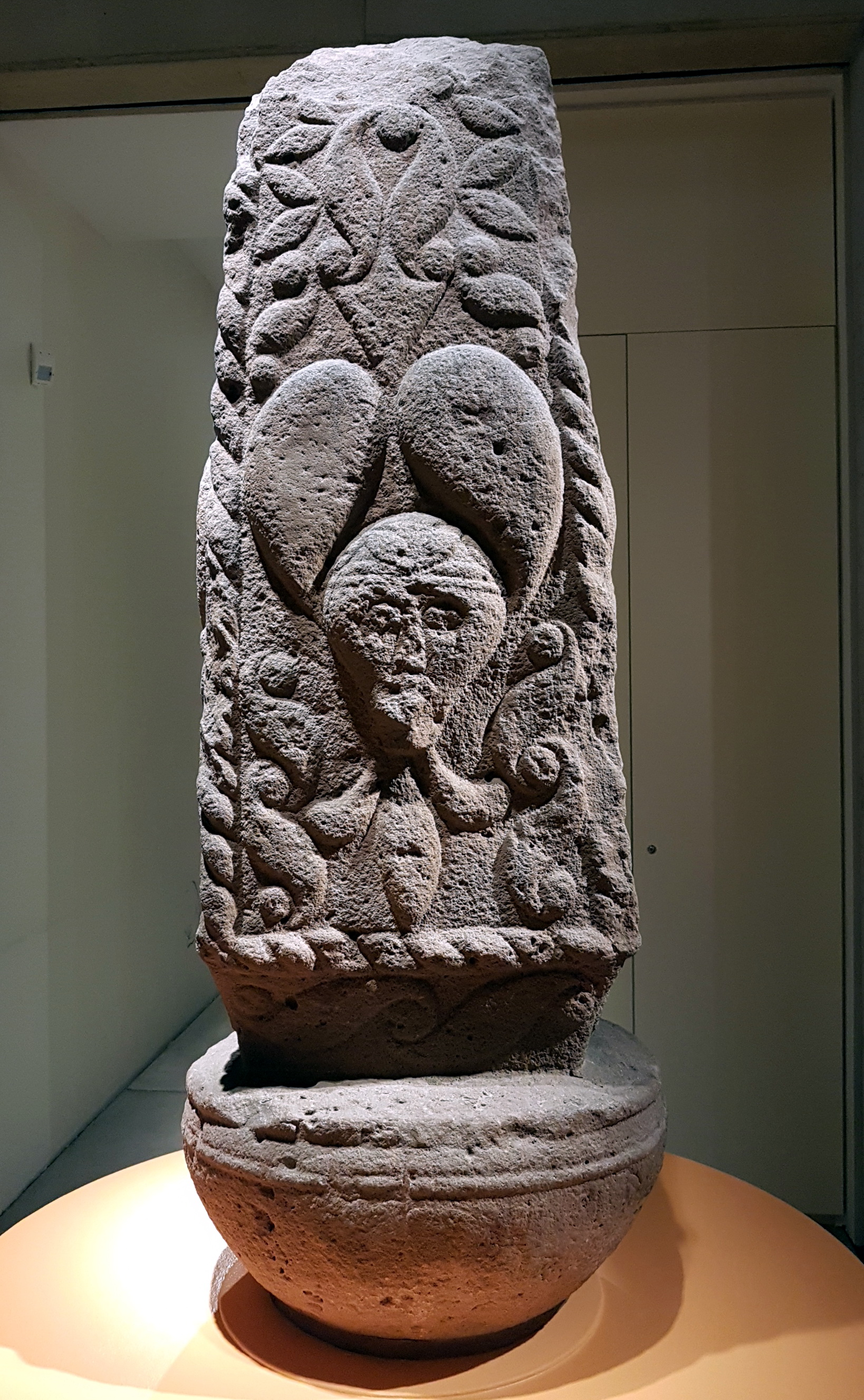 View of the so-called Pfalzfelder Säule in the Rheinisches Landesmuseum in Bonn, Germany. The sculpted column from the 4th/5th c. BC was a Celtic tumulus marker. It was found in the village of Pfalzfeld (Hunsrück region) around 1600 and was a curiosity in the village for more than 300 years. In 1938 it was given to the museum in Bonn.